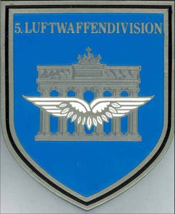 Internal coat of arms of the Bundeswehr (Armed Forces of the Federal Republic of Germany). → Remarks on naming and categorization scheme